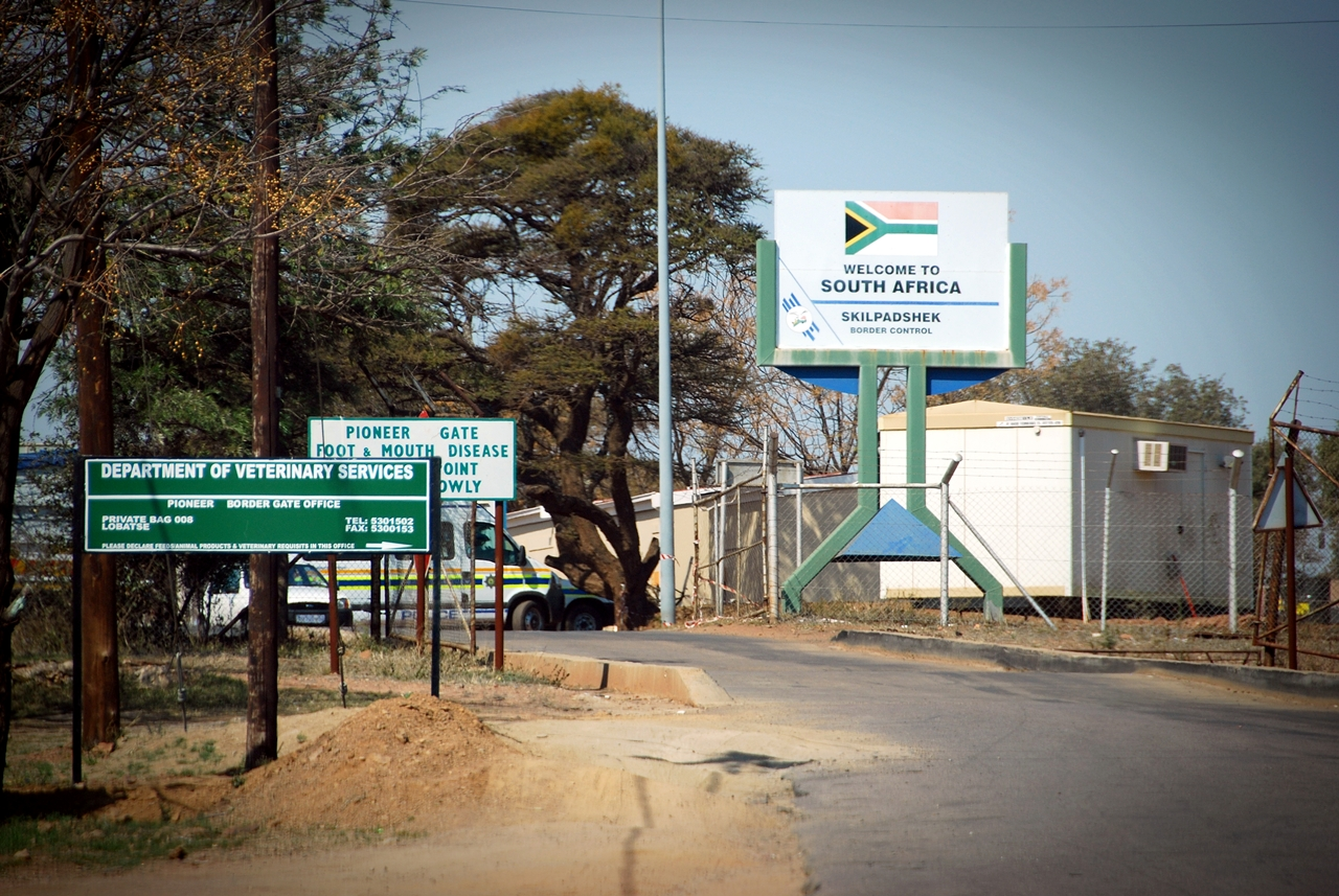 Skilpadshek is a border checkpoint in the North West Province between South Africa and Botswana. On the Botswana side it is called Pioneer Gate